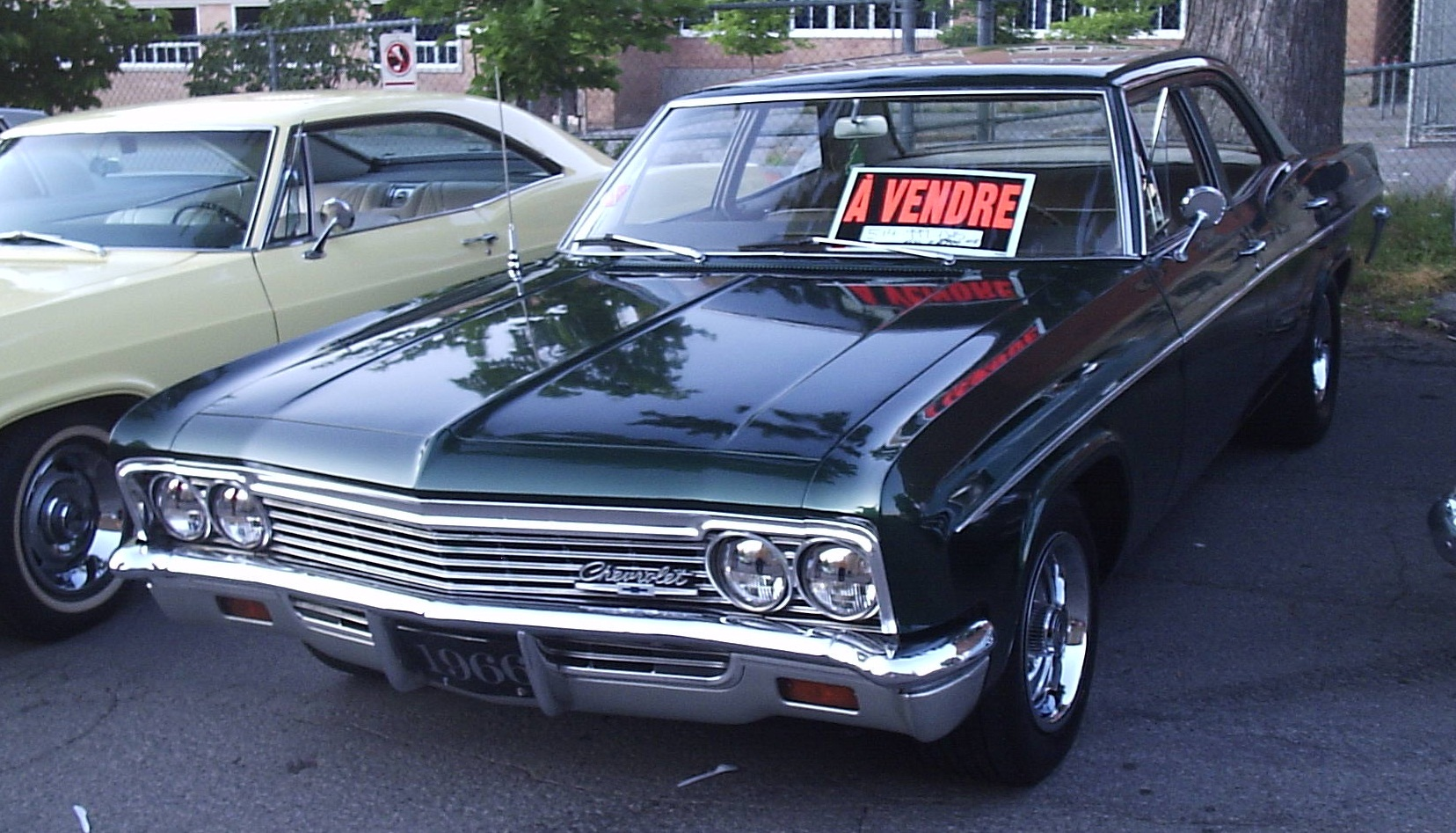 1966 Chevrolet Bel Air photographed in Laval, Quebec, Canada at the Auto classique Ste-Rose.